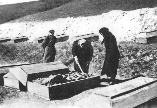 "Valley of Death" near the Bydgoszcz. The photo shows the identification of corpses of victims of mass executions carried out in this place by the Nazi-Germans in autumn 1939.